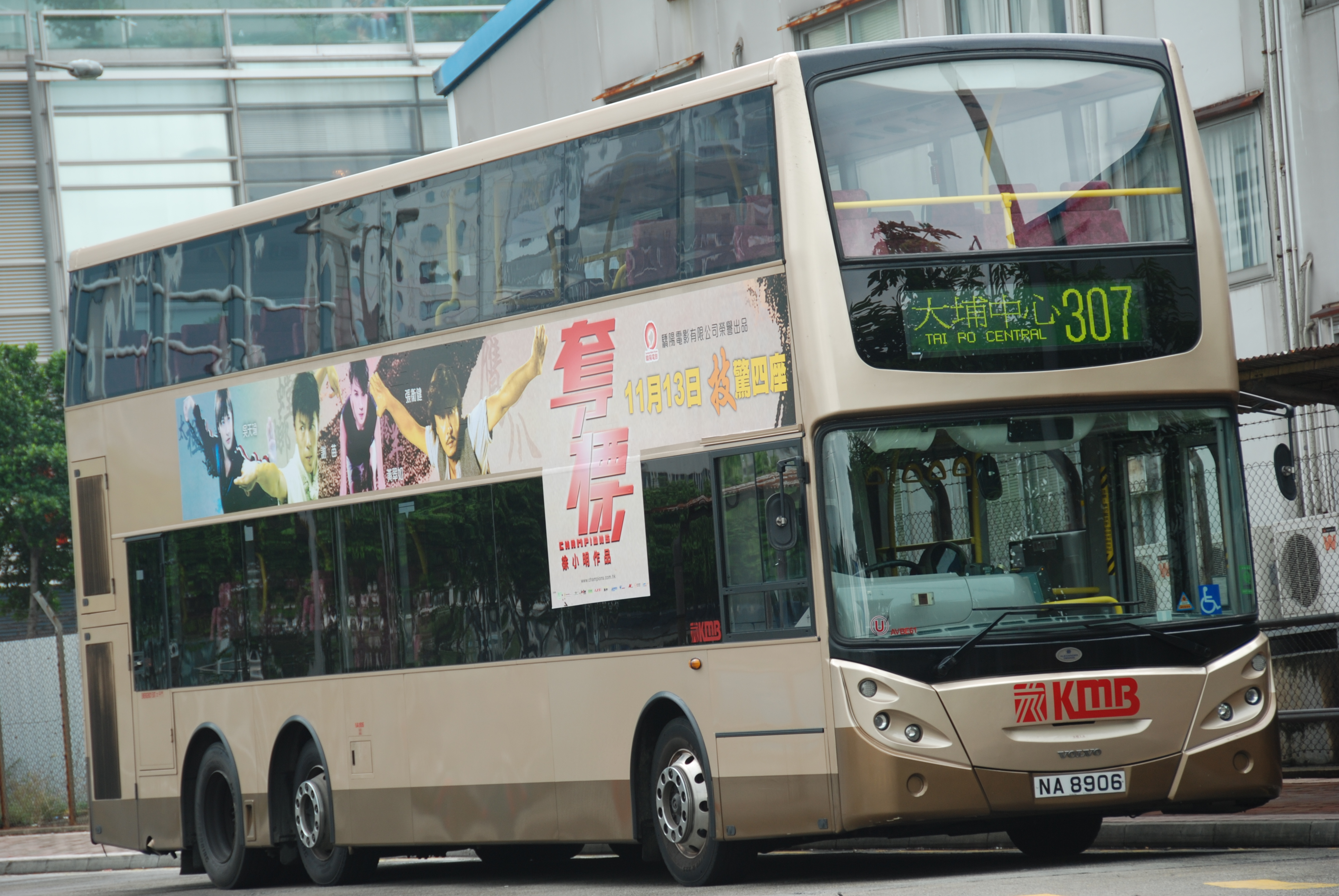 Kowlon Motor Bus AVBE61